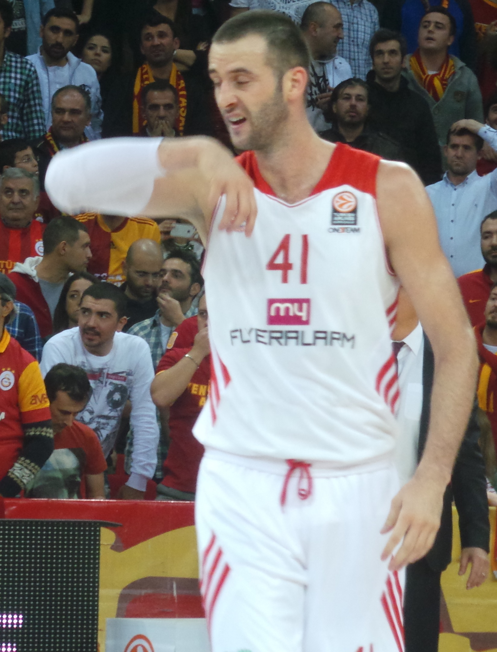 Boris Savović against G.s